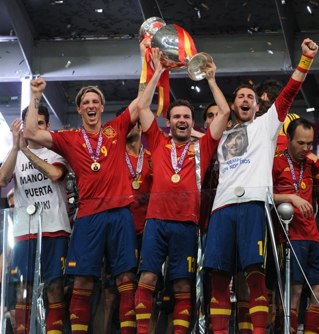 Fernando Torres, Juan Mata and Sergio Ramos with Euro 2012 trophy